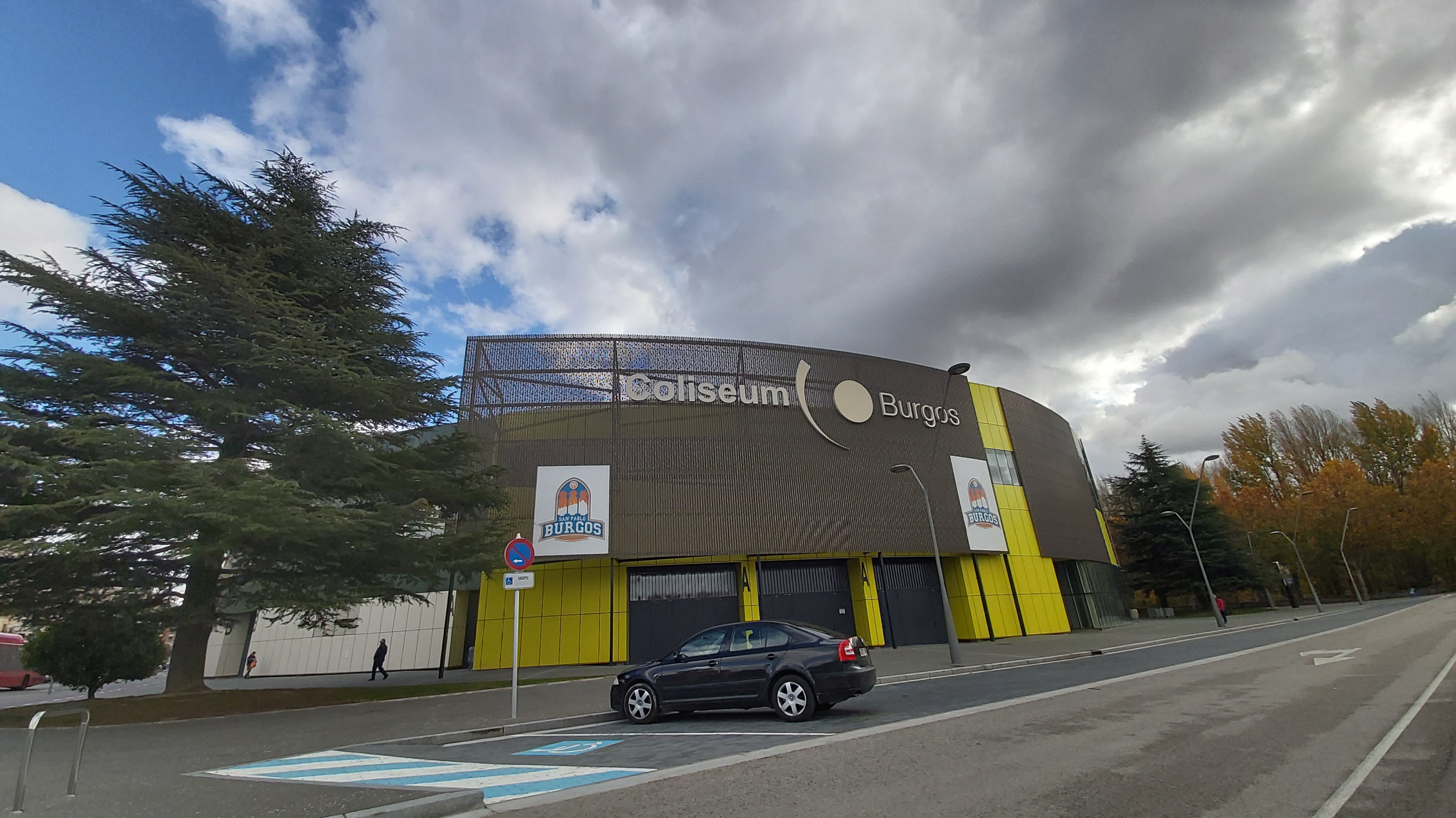 Coliseum basketball pavilion in Burgos.